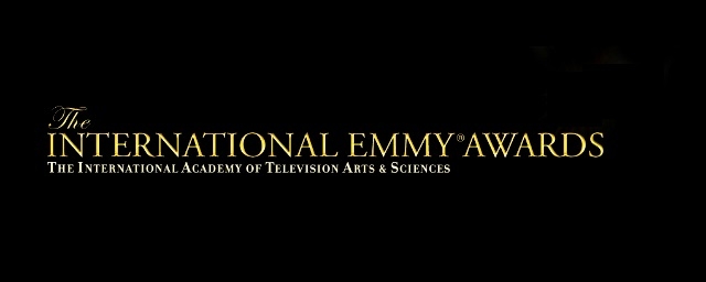 Logo International Academy of Television Arts and Sciences